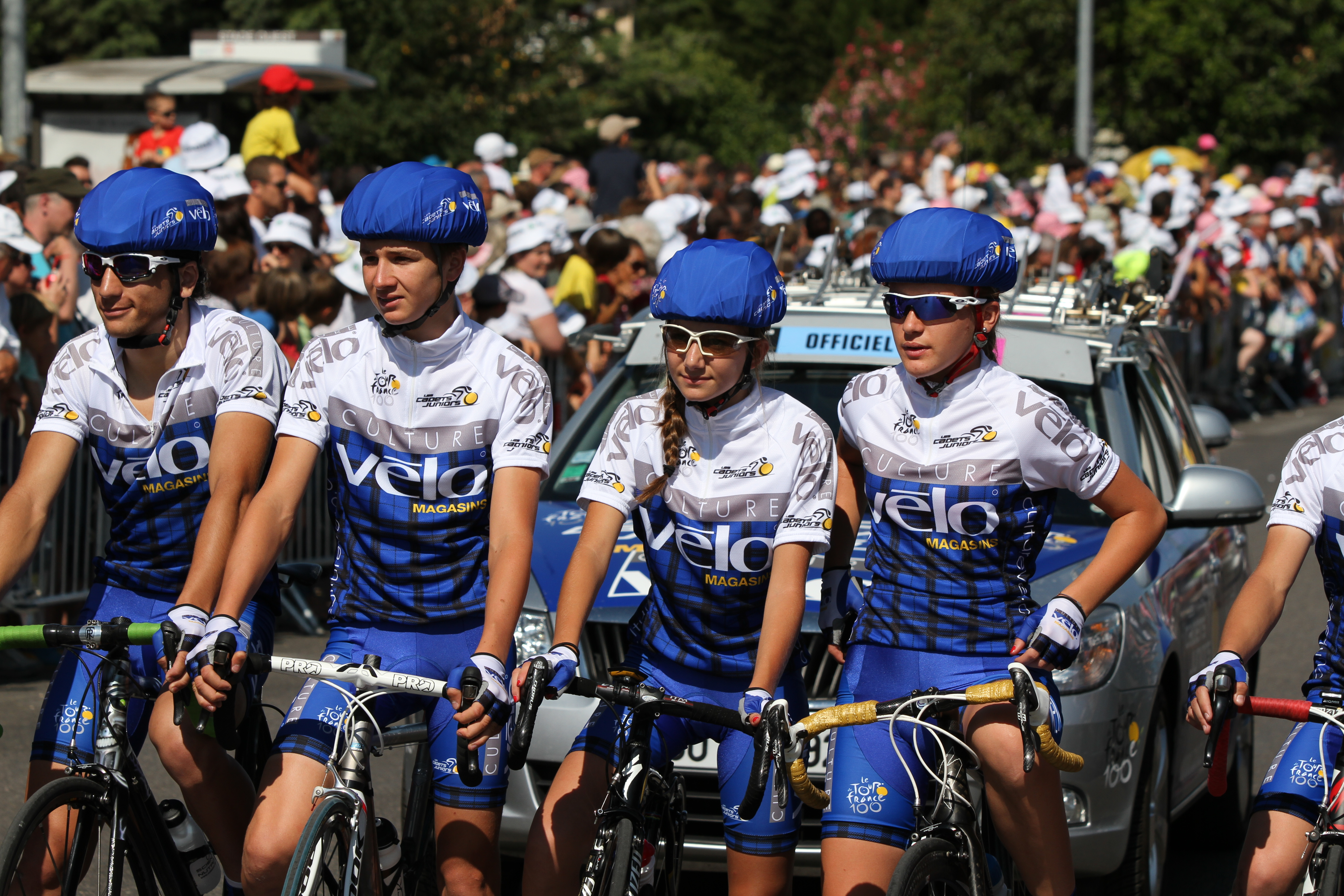 Stage 6 of the Tour de France 2013, at Aix-en-Provence (Bouches-du-Rhône, France)